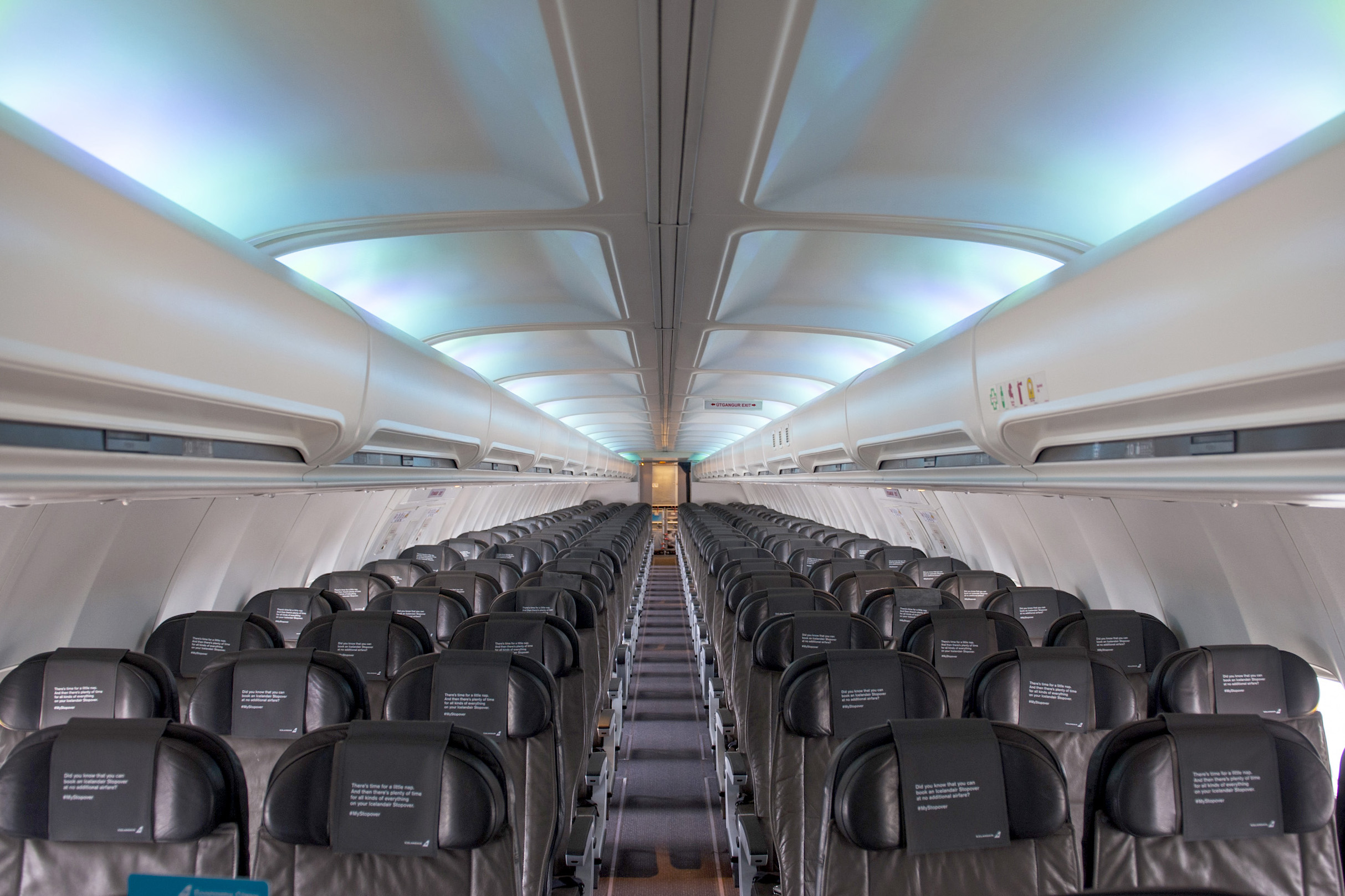 Hekla Aurora cabin